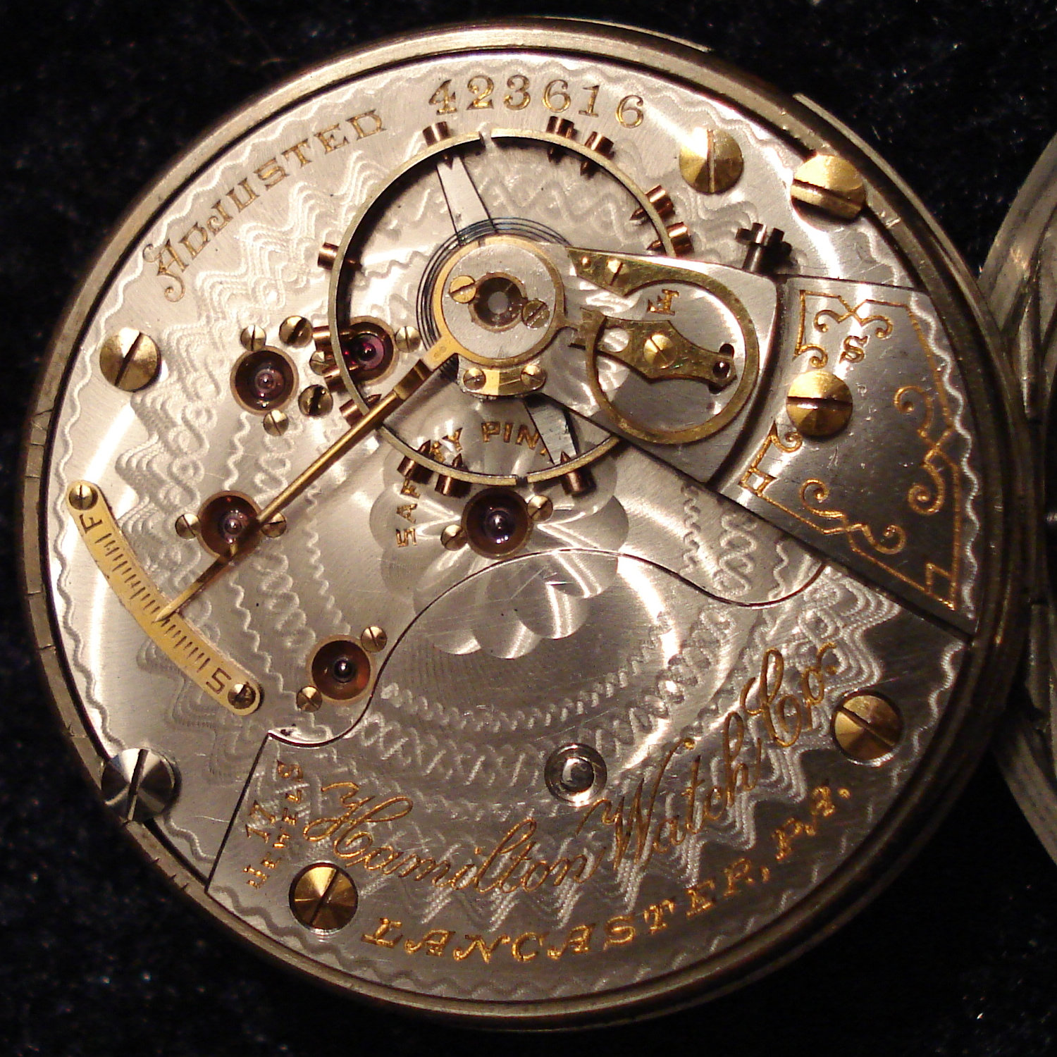 Hamilton 926 pocketwatch movement